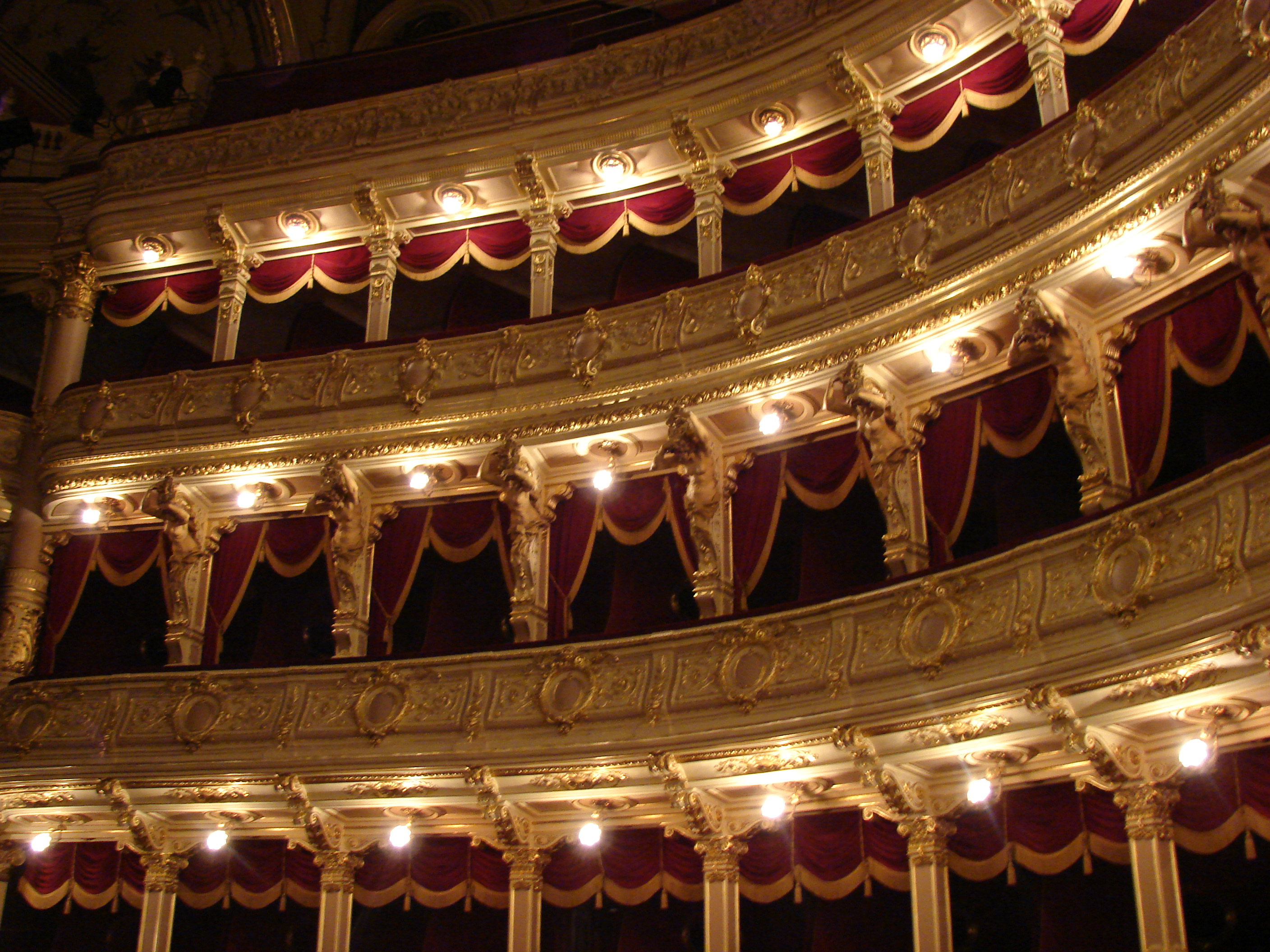 Juliusz Słowacki Theatre (interior)